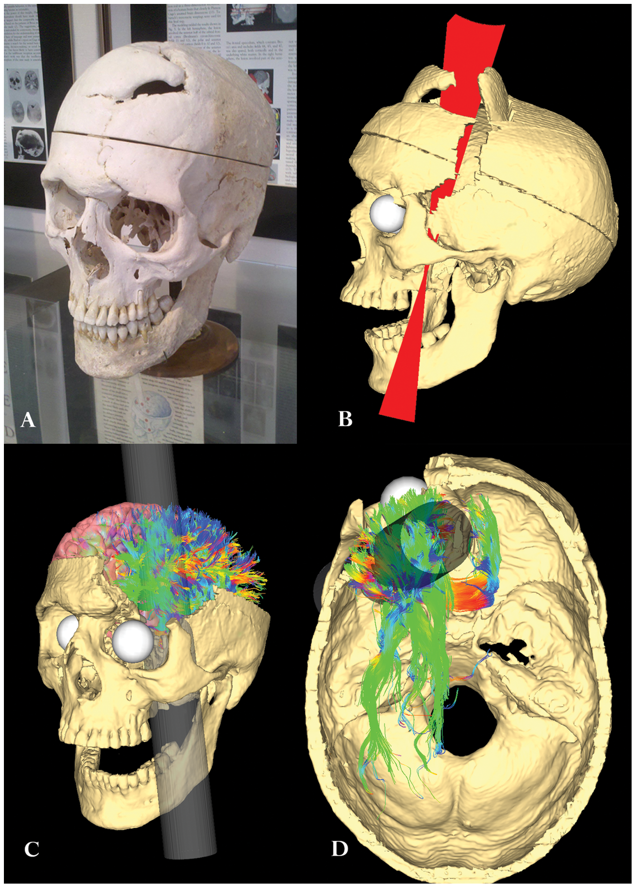 Modeling the path of the tamping iron through the Gage skull and its effects on white matter structure. (a) The skull of Phineas Gage on display at the Warren Anatomical Museum at Harvard Medical School. (b) ... This figure shows the set of possible rod trajectory centroids which satisfied each of the anatomical constraints. ... (c) A rendering of the Gage skull with the best fit rod trajectory and example fiber pathways in the left hemisphere intersected by the rod. Graph theoretical metrics for assessing brain global network integration, segregation, and efficiency [92] were computed across each subject and averaged to measure the changes to topological, geometrical, and wiring cost properties. (d) A view of the interior of the Gage skull showing the extent of fiber pathways intersected by the tamping iron in a sample subject (i.e. one having minimal spatial deformation to the Gage skull). The intersection and density of WM fibers between all possible pairs of GM parcellations was recorded, as was average fiber length and average fractional anisotropy (FA) integrated over each fiber.